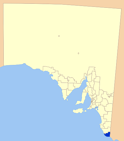 Modification of Astrokey44's original map found here: File:SA_LGA_blank.png Position of Coober pedy LGA